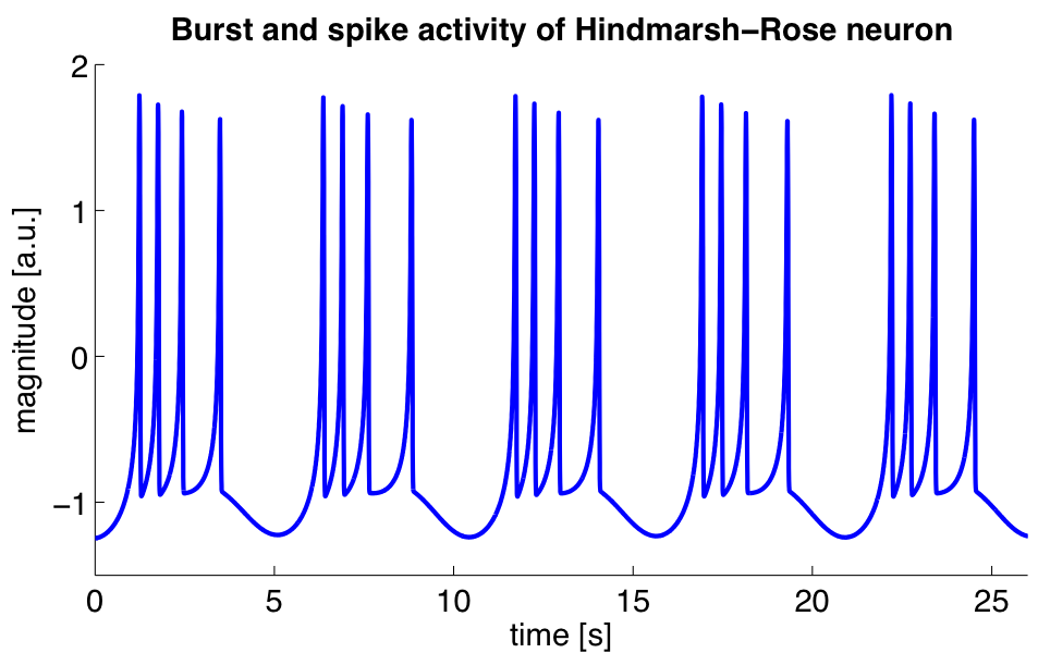 Simulation of Hindmarsh-Rose neuron showing burst and spike activity